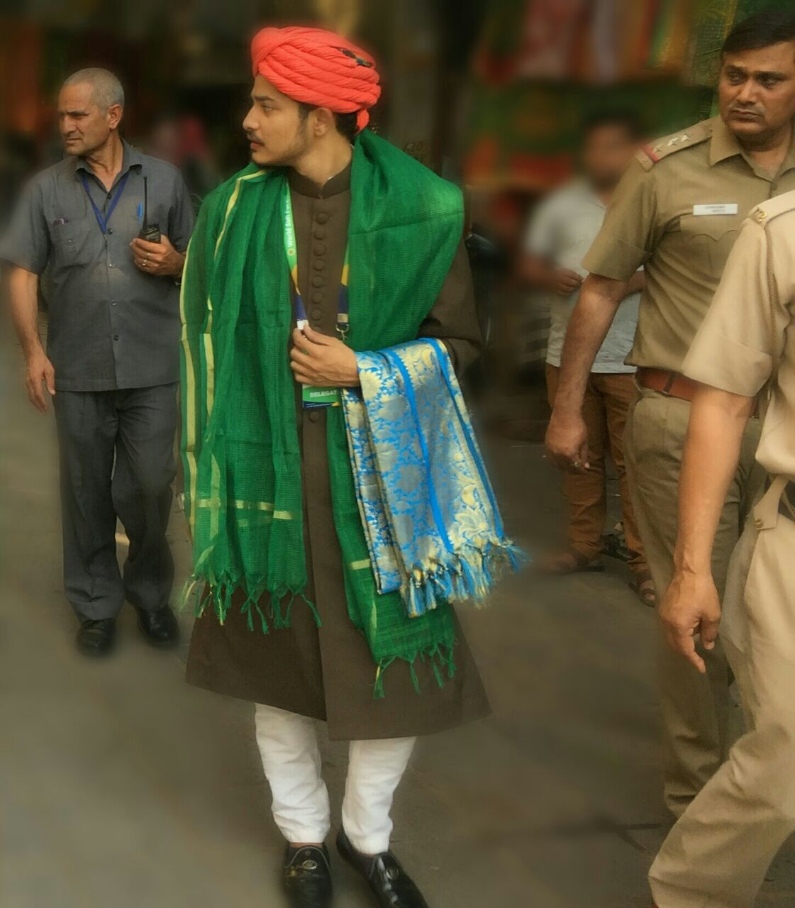 Shah Saheb Qibla is Going To Attend A Ceremony In Delhi